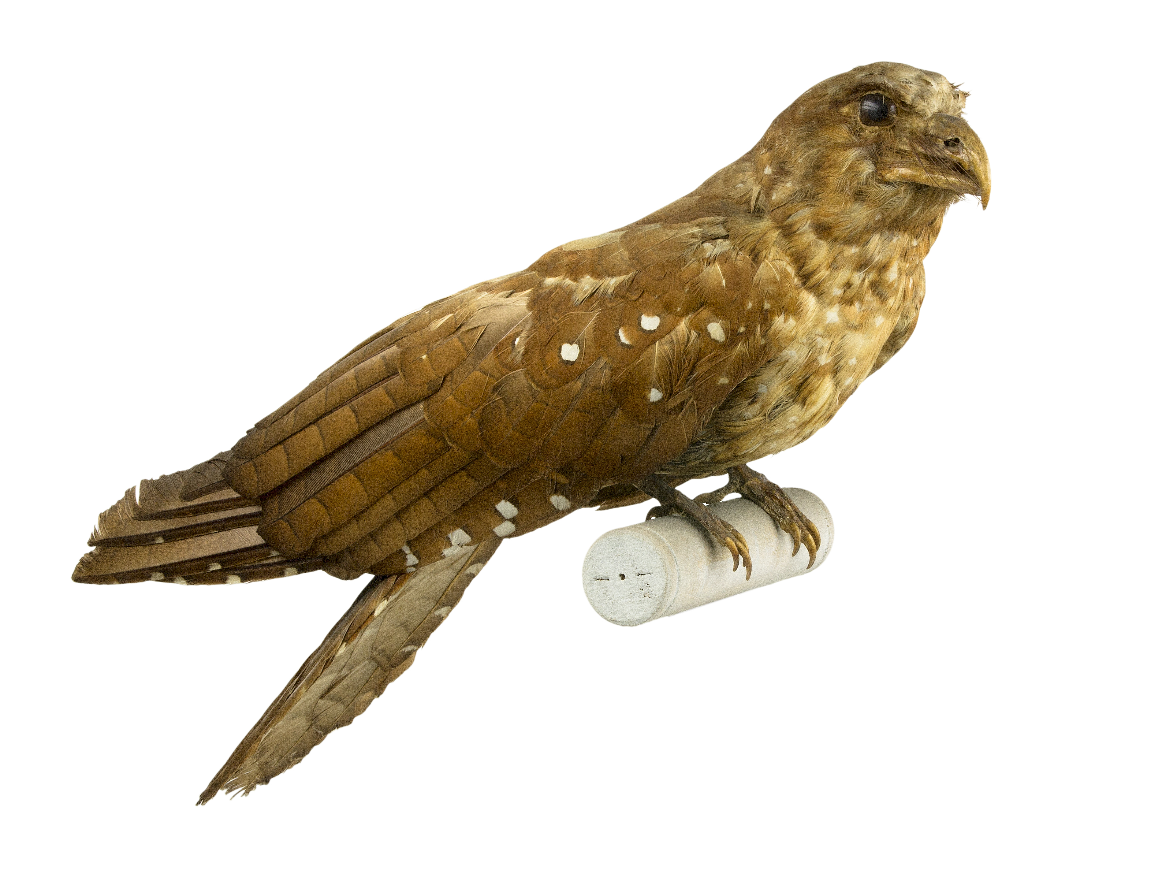 taxidermied specimen, oilbird, size : 34 x 11 x 17 cm